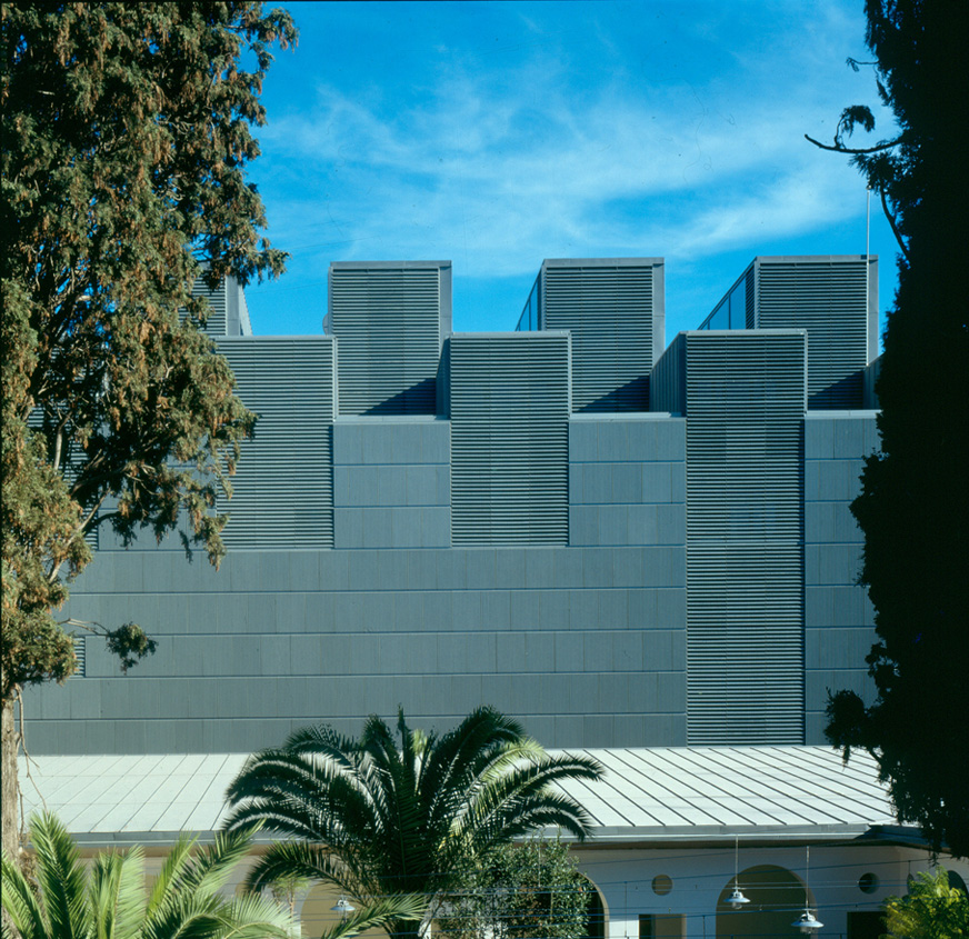 View from the patio of the Fine Arts Museum of Castellón, Spain, by Mansilla+Tuñón